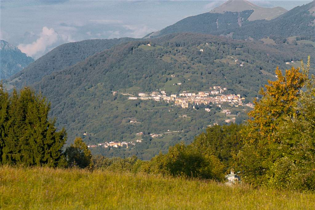 View of Ponna